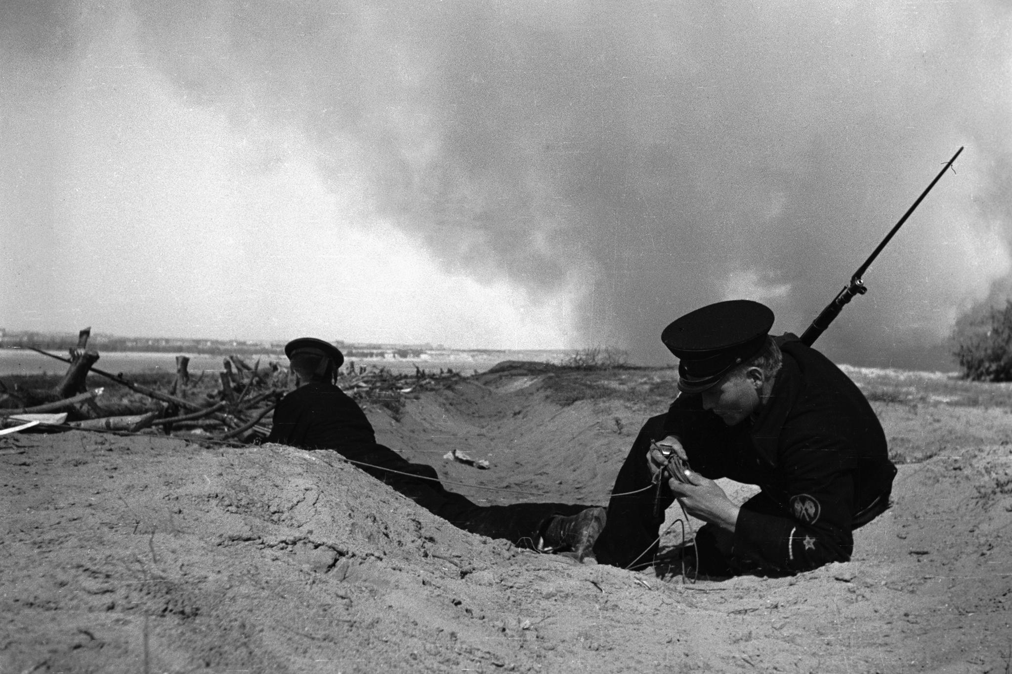 “Stalingrad's defense”. A Soviet sailor restoring a communication line. The battle of Stalingrad.